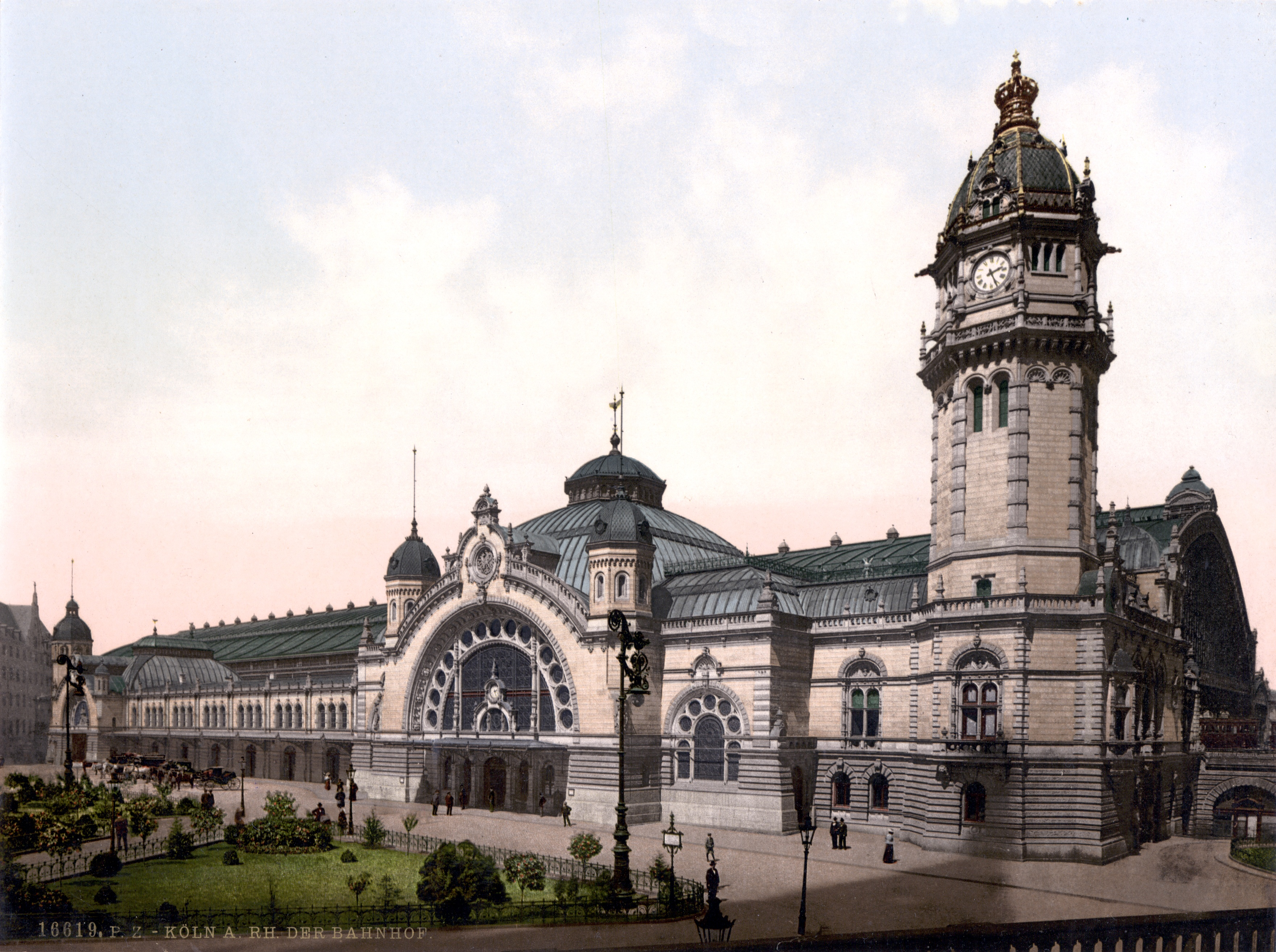 The railway station, Cologne, the Rhine, Germany